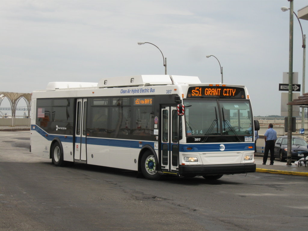 NYC Transit Authority Orion VII 07.501 Next Generation #3817 operates on the S51 line in Staten Island, NY.